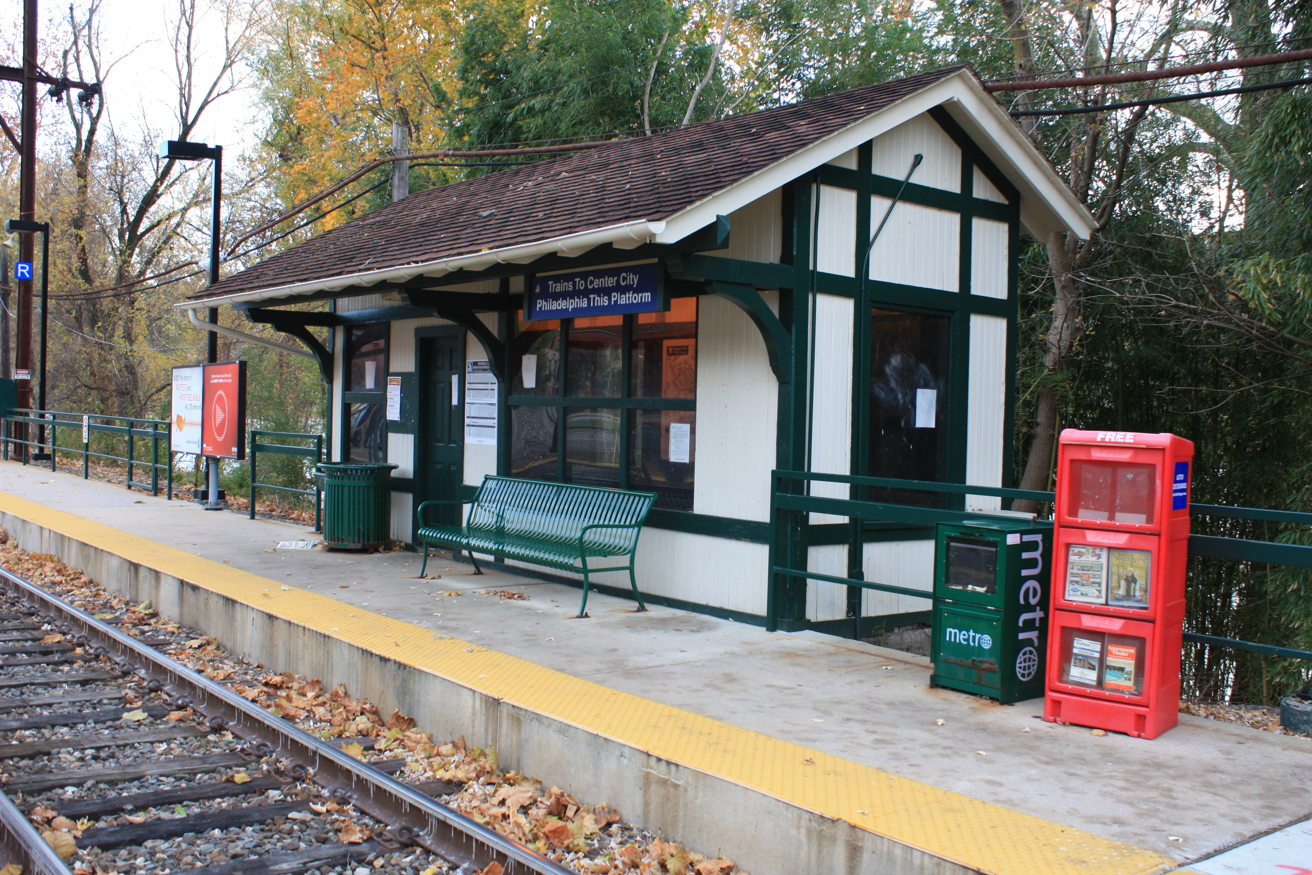 Miquon Septa Station in at Miquon, Whitemarsh Township, Montgomery County, Pennsylvania. Photo by the Montgomery County Planning Commission (all their photos are CC-BY-SA 2.0)